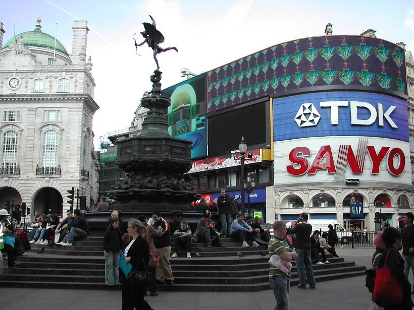 Piccadilly Circus